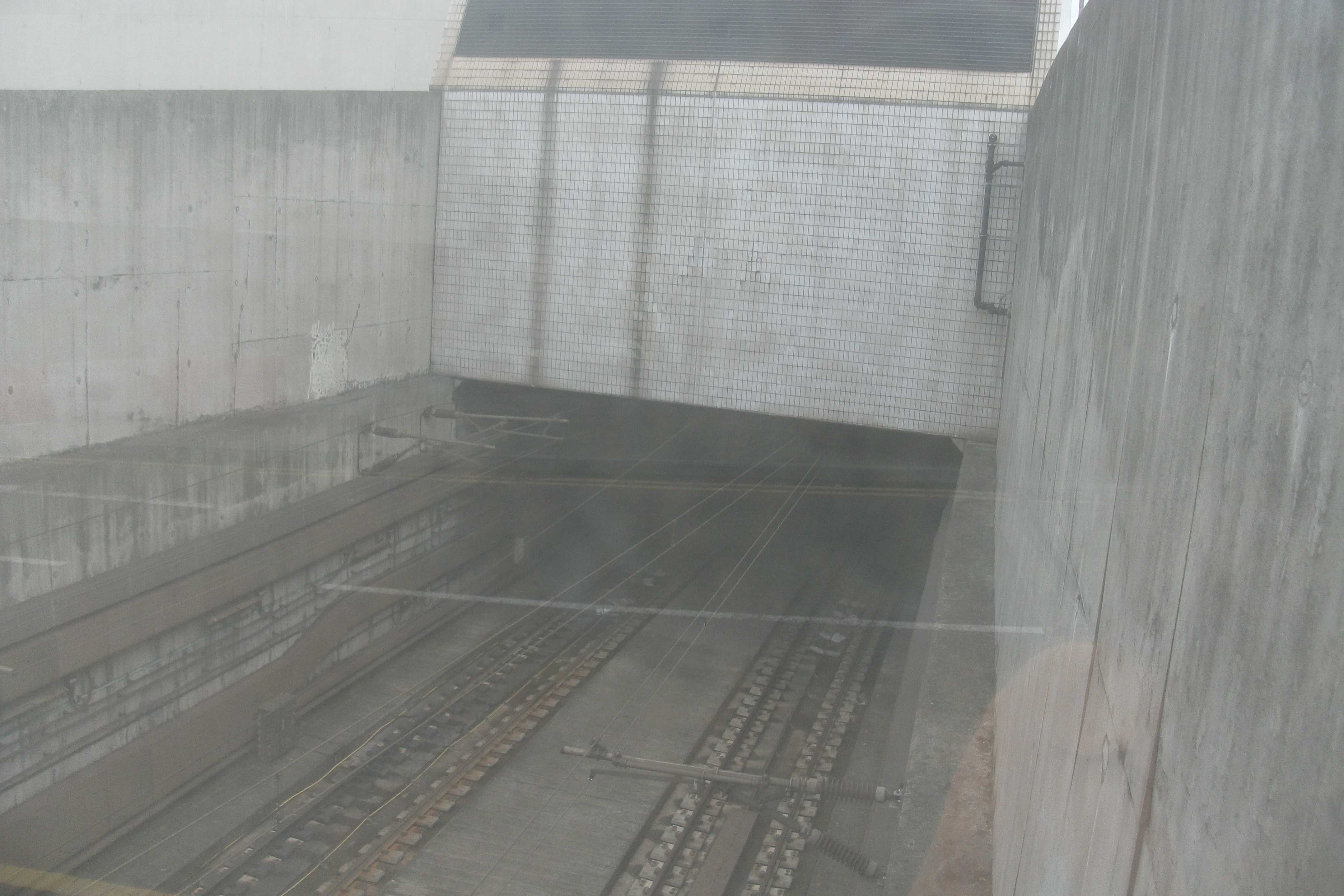 West Rail line tracks between Hung Hom station and East Tsim Sha Tsui station